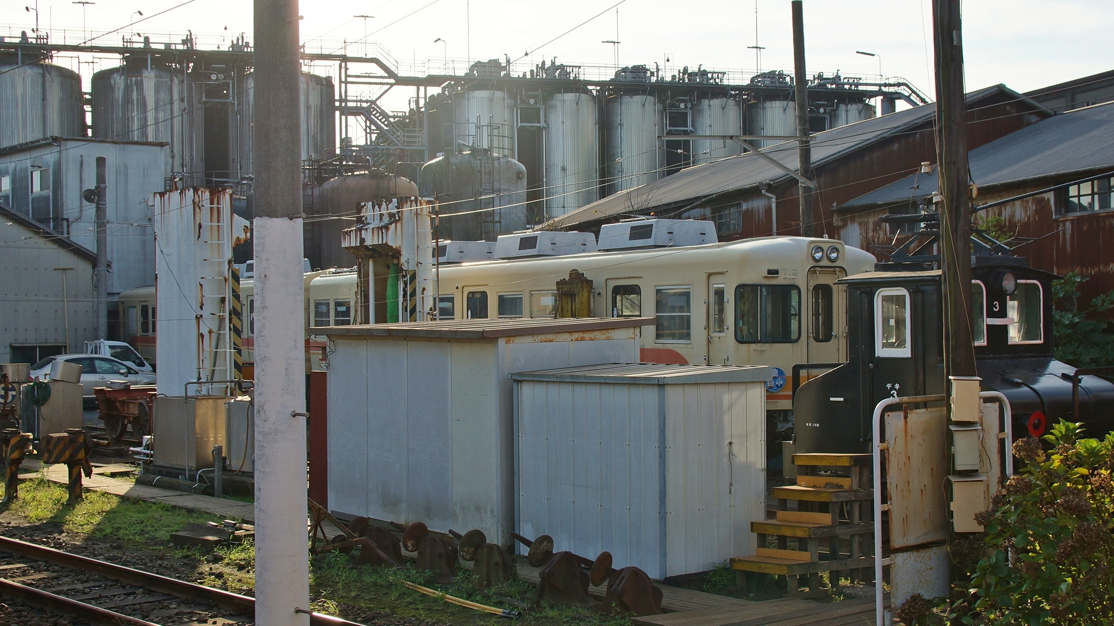 Former Iyo Railway 700 series EMU cars MoHa 713 and KuHa 763 at Nakanocho Depot on the Choshi Electric Railway awaiting modifications and repainting